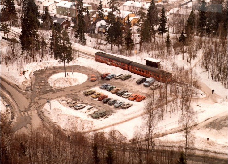 Østerås Station on the Røa Line in Bærum, Norway.